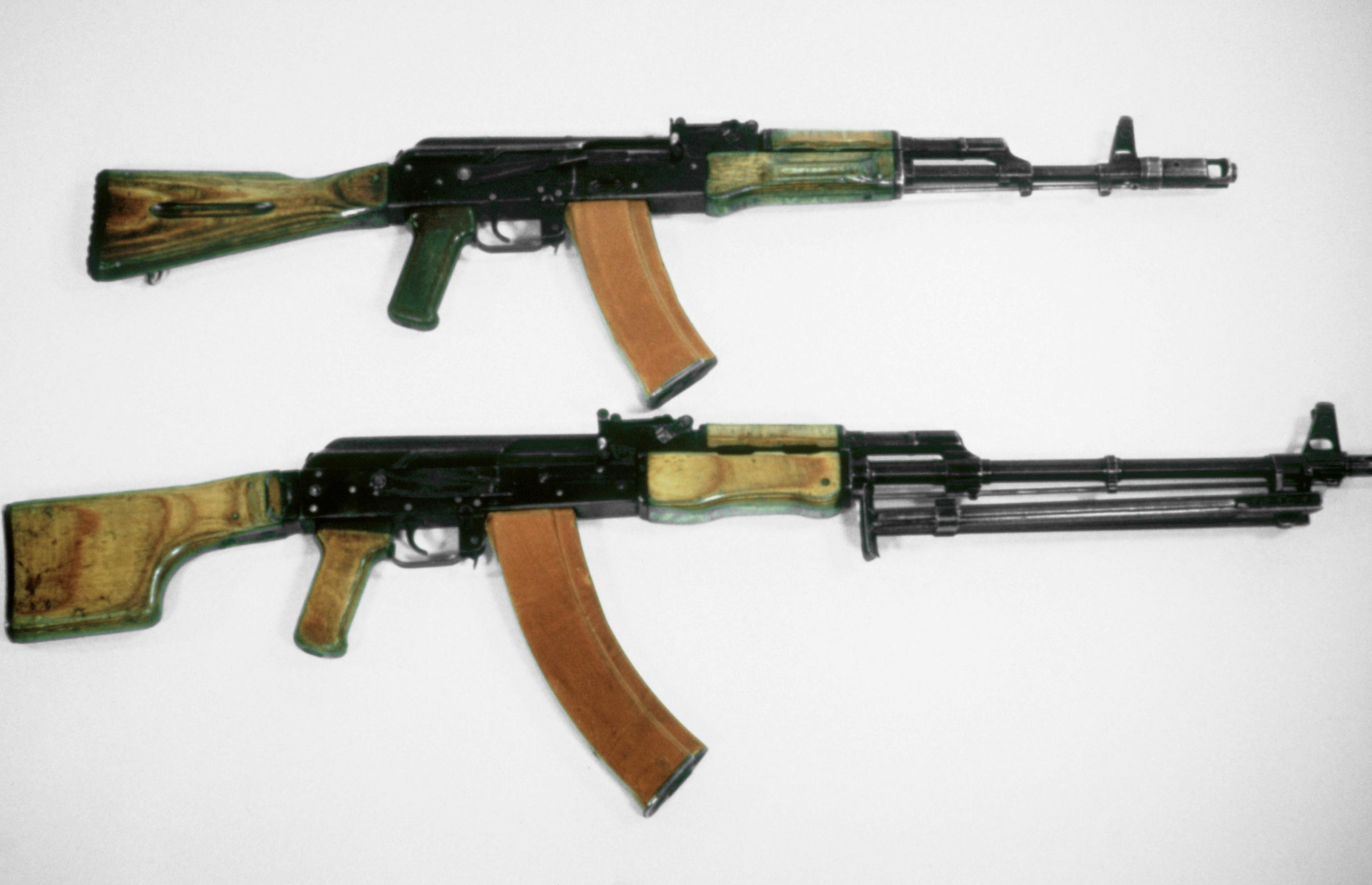 reversed since the current version is reversed (safety is on the right side not the left)